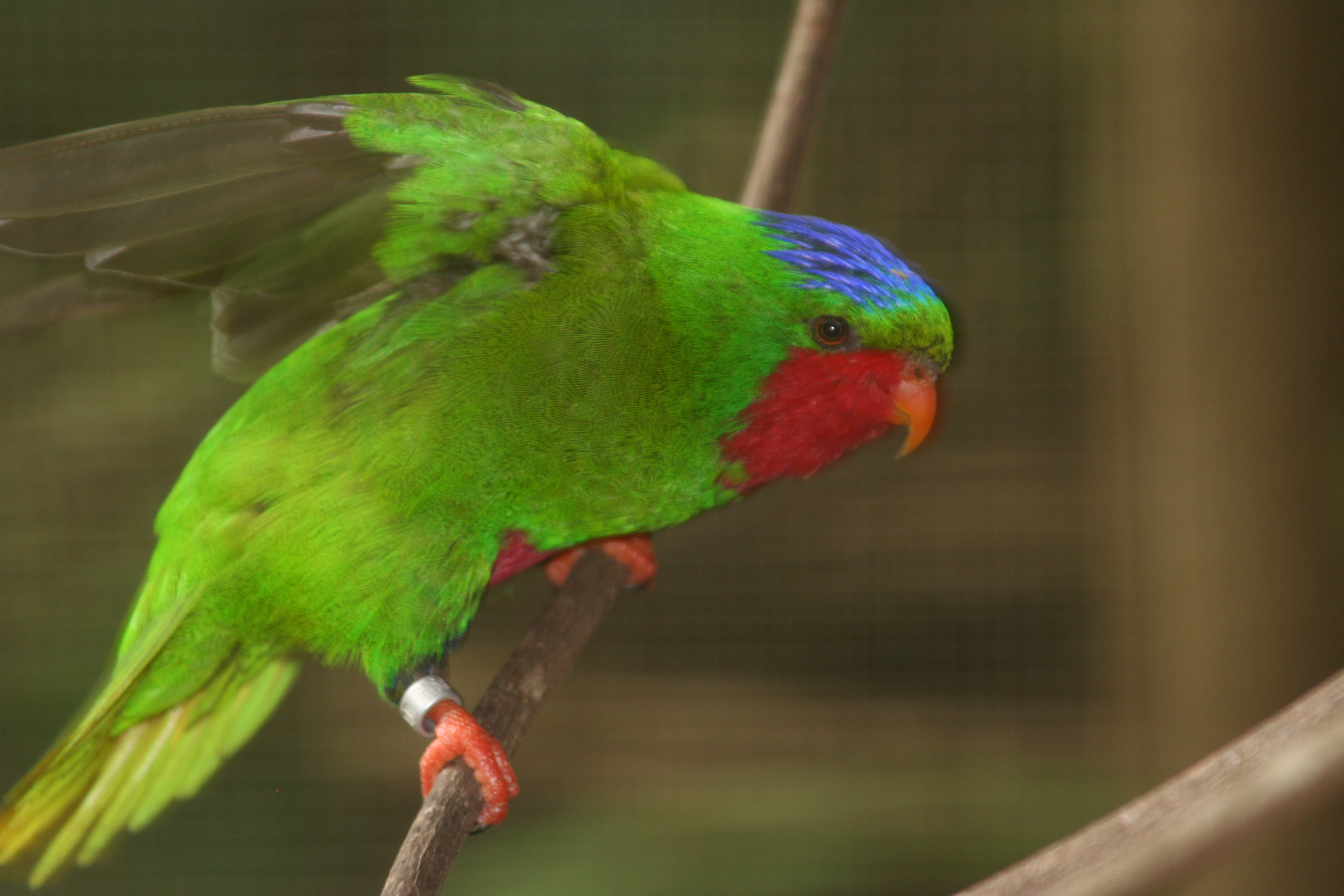 Blue-crowned Lorikeet Vini australis in captivity, Fafa Island, Tonga.